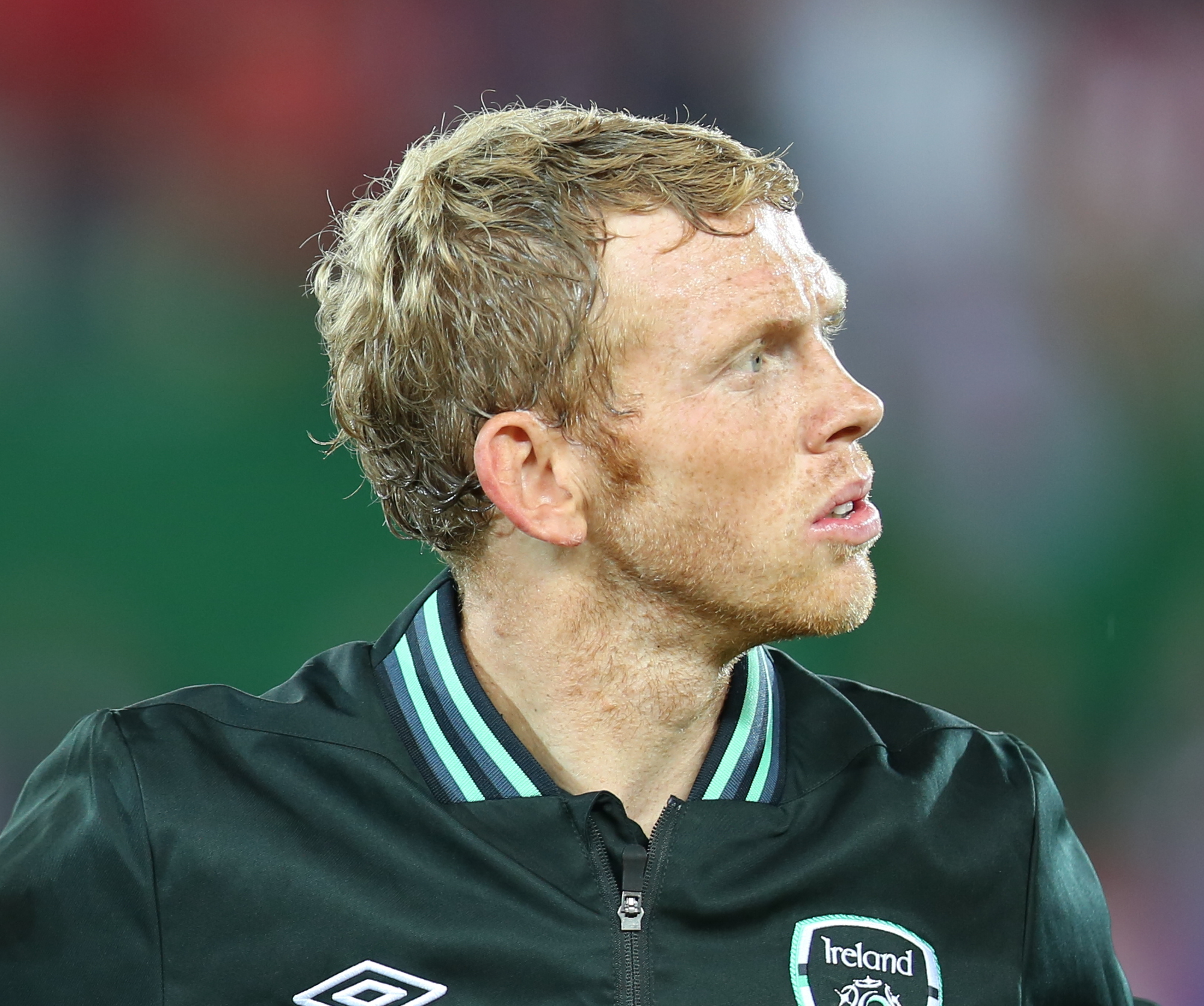 2014 FIFA World Cup qualification (UEFA), Group C: Republic of Ireland national football team at 10. September 2013 before the match against the Austria national football team (0:1) in the Ernst-Happel-Stadion in Vienna. Here:Paul Green, Irish midfielder. The making of this work was supported by Wikimedia Austria. For other files made with the support of Wikimedia Austria, please see the category Supported by Wikimedia Österreich.